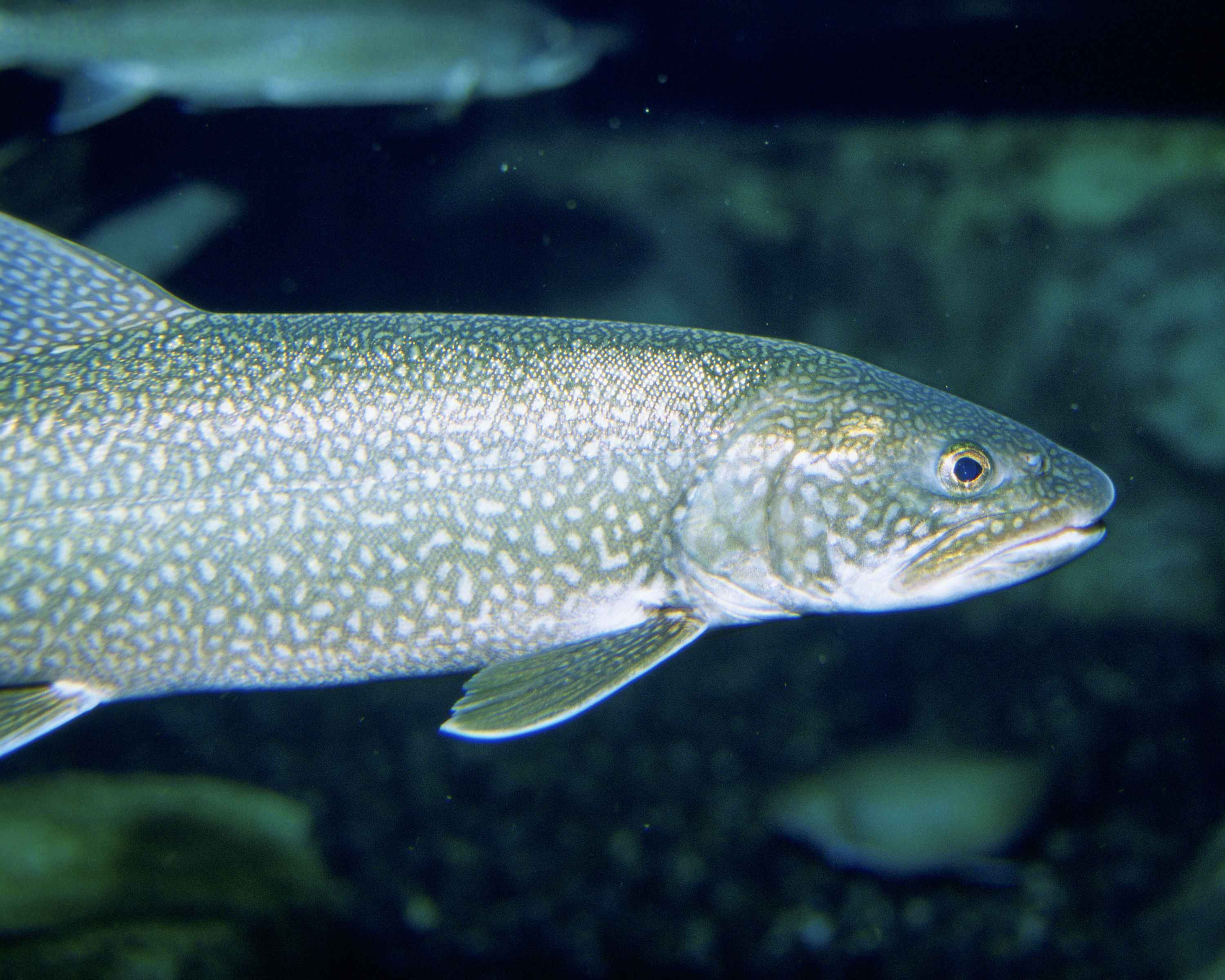 Image title: Lake trout fish underwater close up head Image from Public domain images website